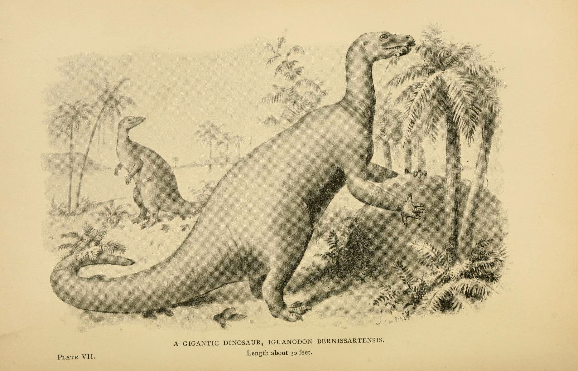 Extinct monsters London :Chapman & Hall,1896.